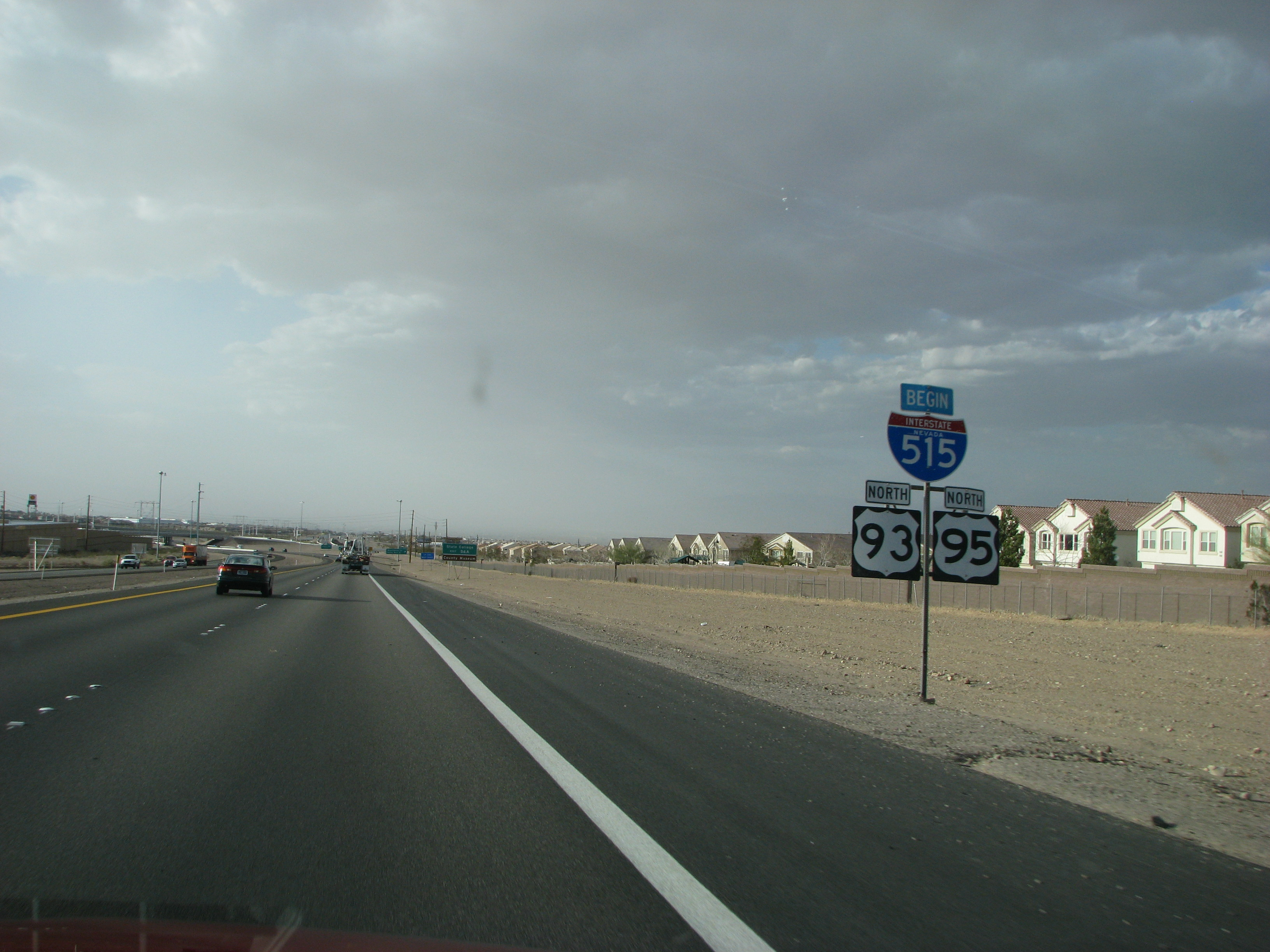 U.S. routes 93 / 95 (northbound) at the start of the Interstate 515.